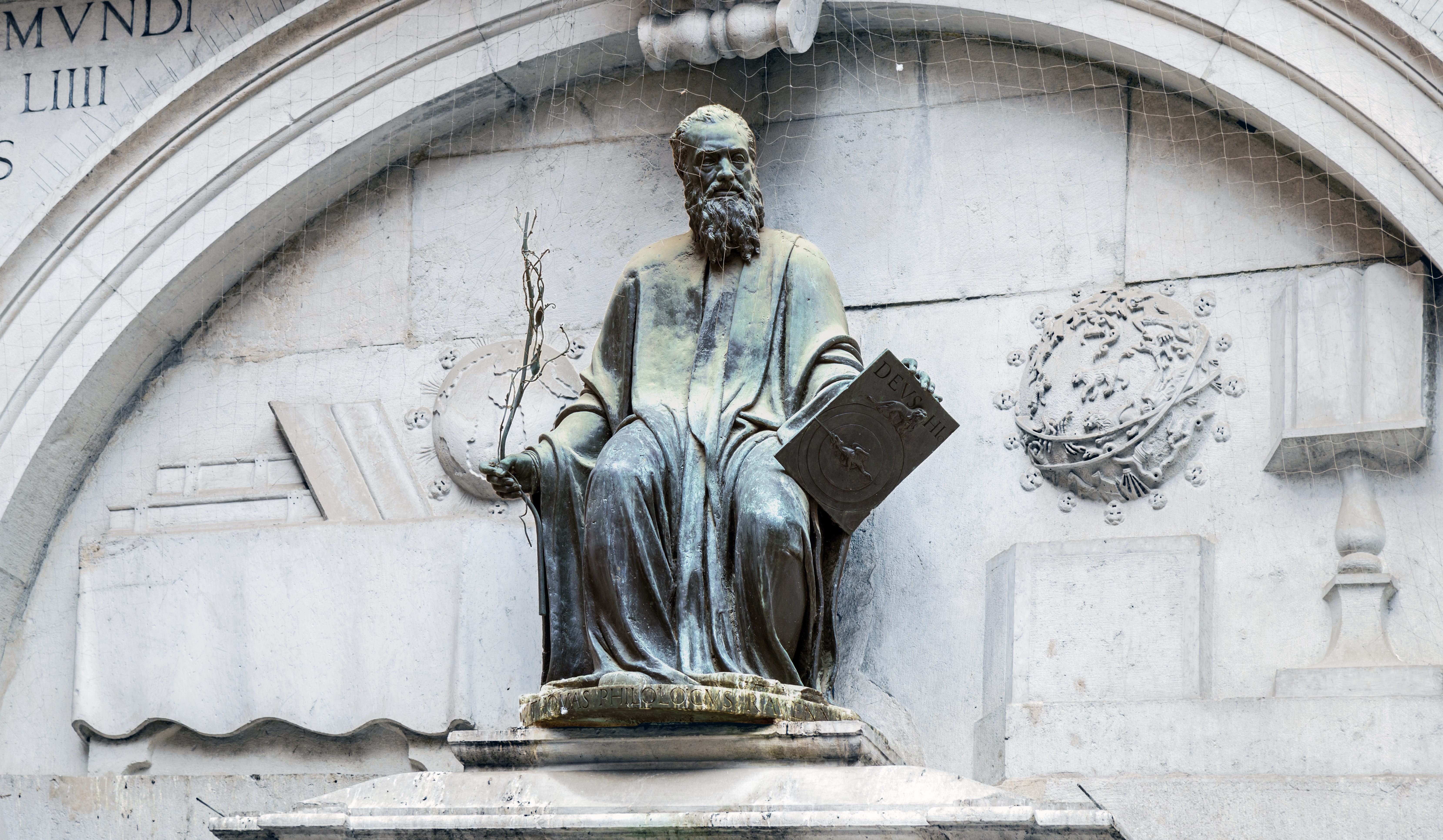 San Zulian, Venice. The bronze statue of Tommaso Rangone given to Jacopo Sansovino, in 1554. Tommaso Rangone (Thomas Philologus) is philologist and pysician who paid for the facade of the church, in exchange for making it into a monument to his own glory.